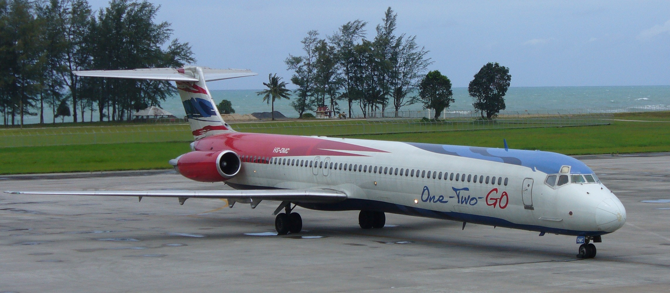 A One-Two-GO MD-82 on a rainy day in Phuket I seandigger took this picture and i don't care what anyone does with it